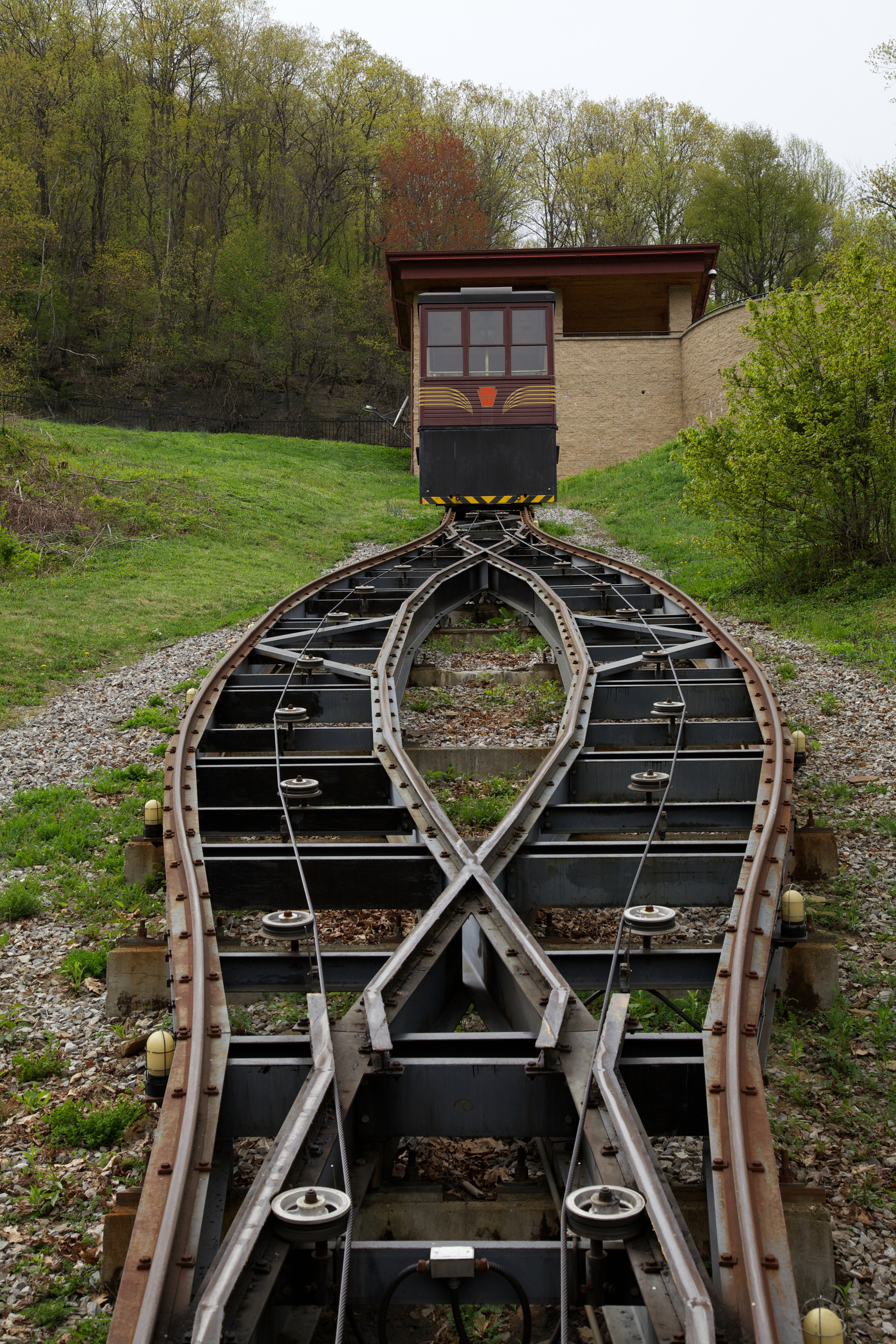 Horseshoe Curve is on the main line of the Norfolk Southern Railway between Pittsburgh and Harrisburg, Pennsylvania. The horseshoe allows trains trains heading west from Altoona to climb an acceptable grade of (1.85%) to reach the summit of the Allegheny Mountains.